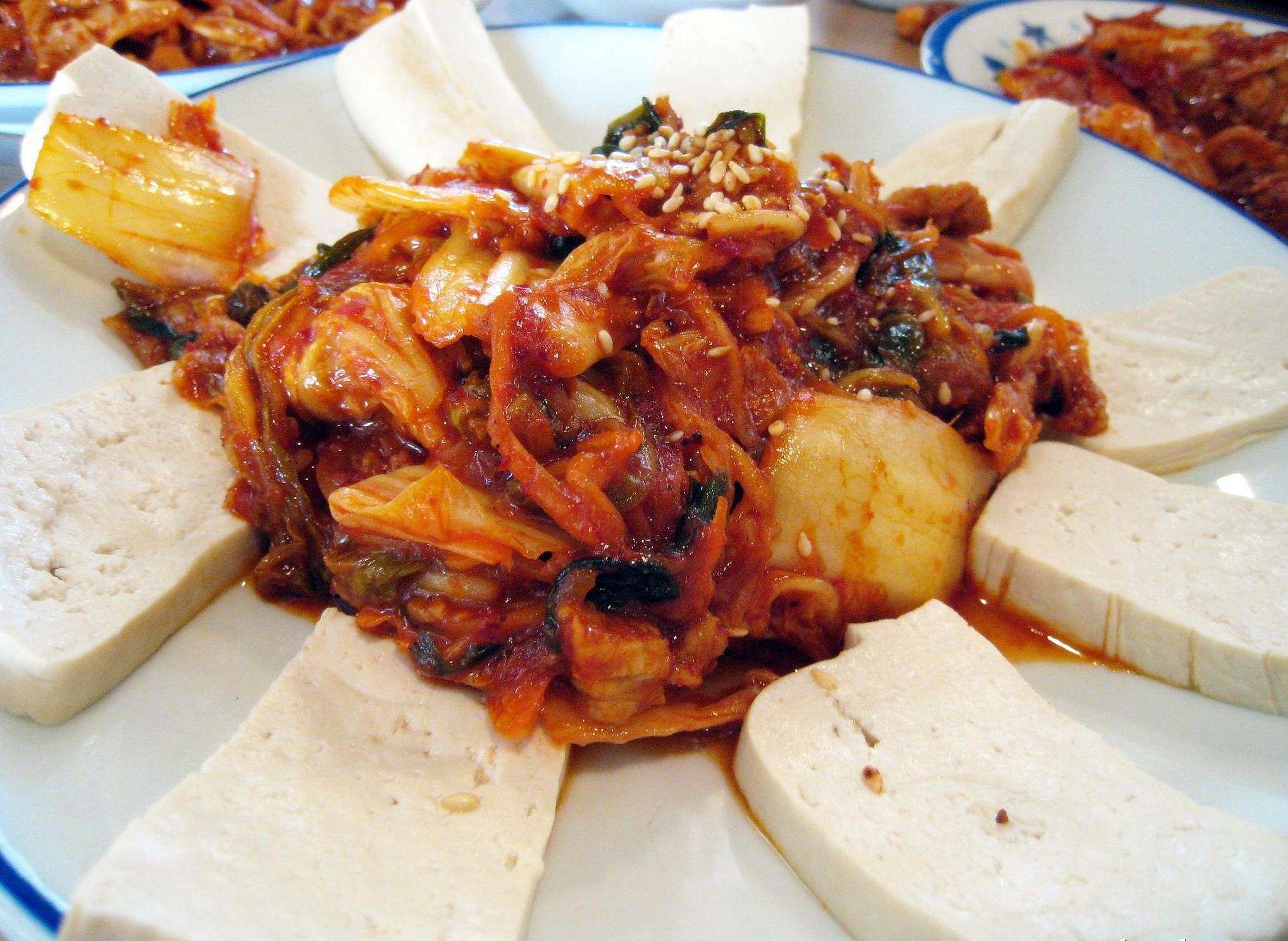 Dubu kimchi (두부김치), a Korean dish consisting of pan-fried kimchi and fork assorted with parboied dubu(tofu). It is a popular anju (food for drink) in South Korea